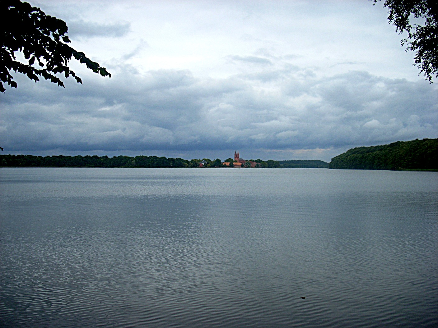 View over the Dobbertin lake